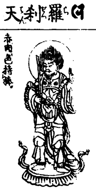 Rasetsuten as one of buddhist deities